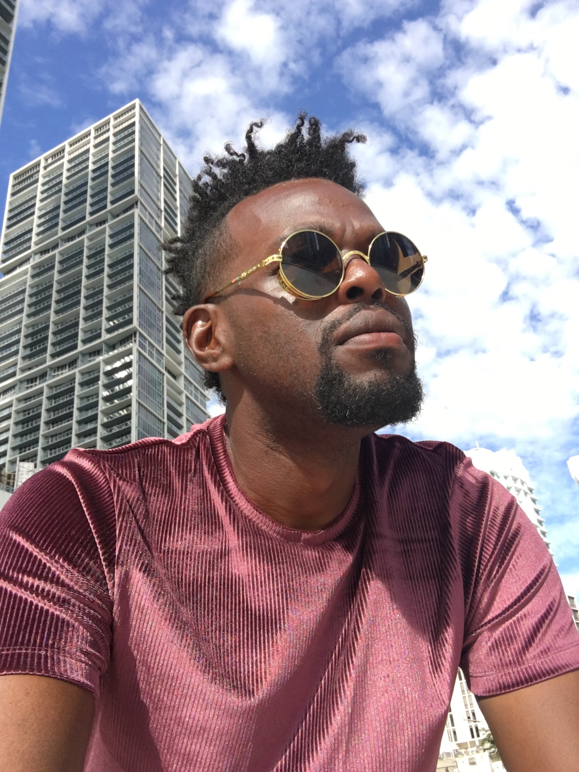 A photo of Antonio Fresco taken in 2019 in Brickell, Miami